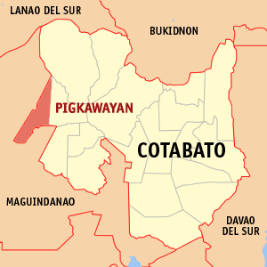 Map of the Cotabato showing the location of Pigkawayan